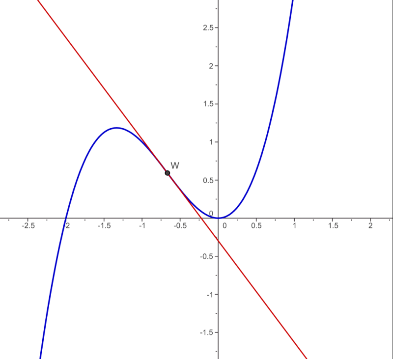 Inflection point of the function x^3+ 2x^2